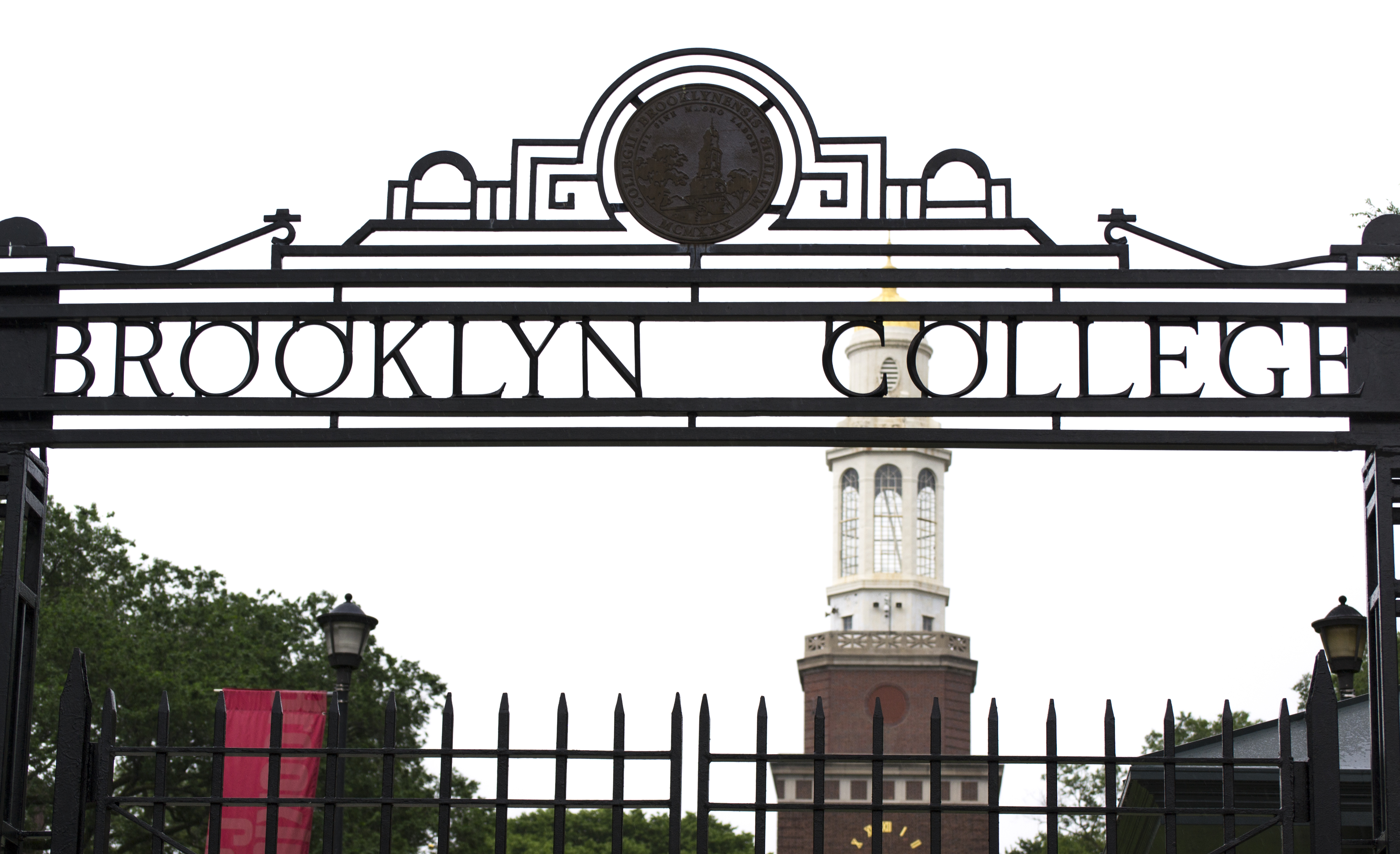 This is at the gate of Brooklyn College.